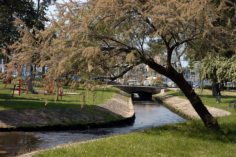 Public Garden Vrulje in Zadar